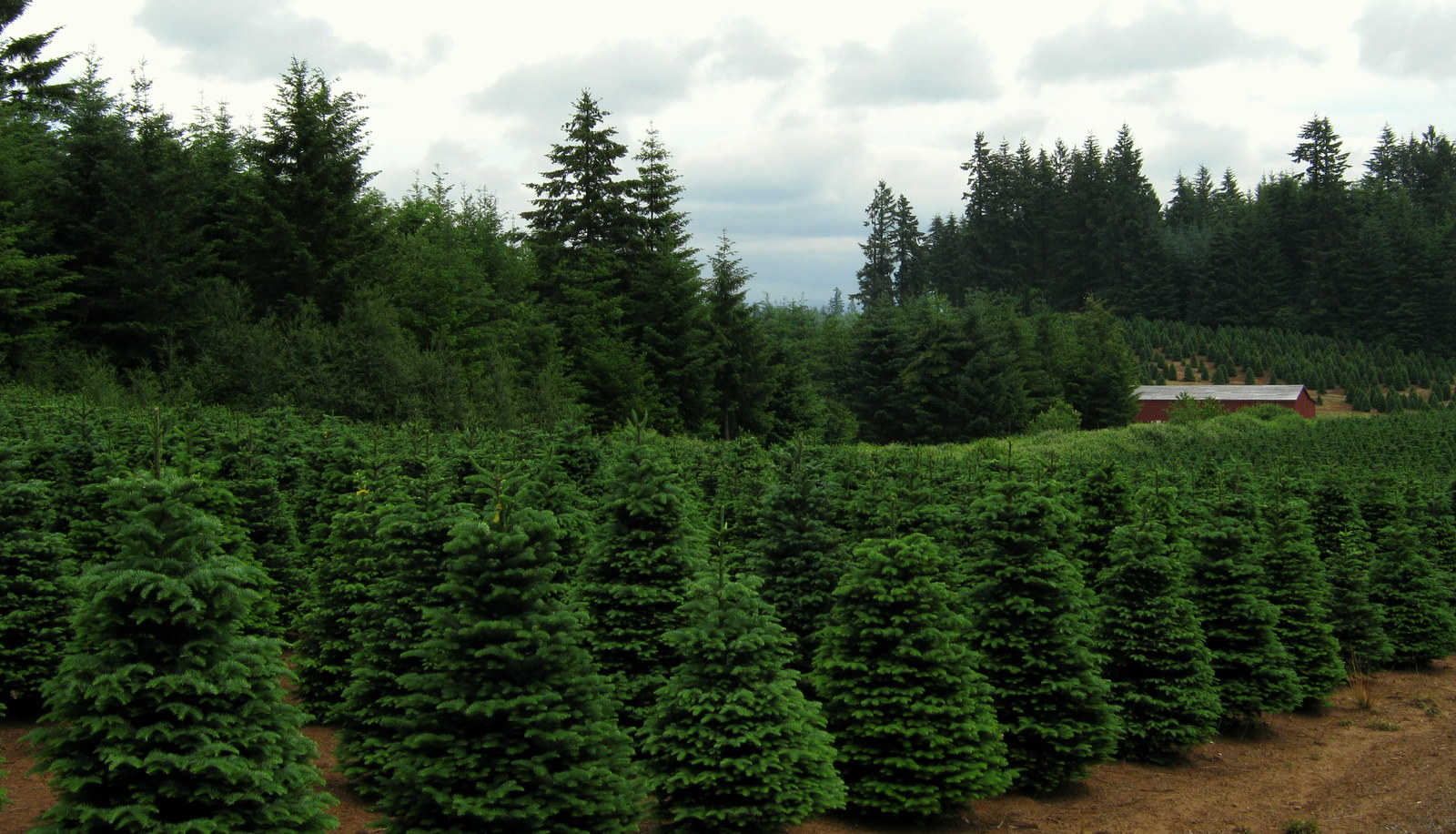 Christmas tree farm near Redland, Oregon. Photo taken from public property.